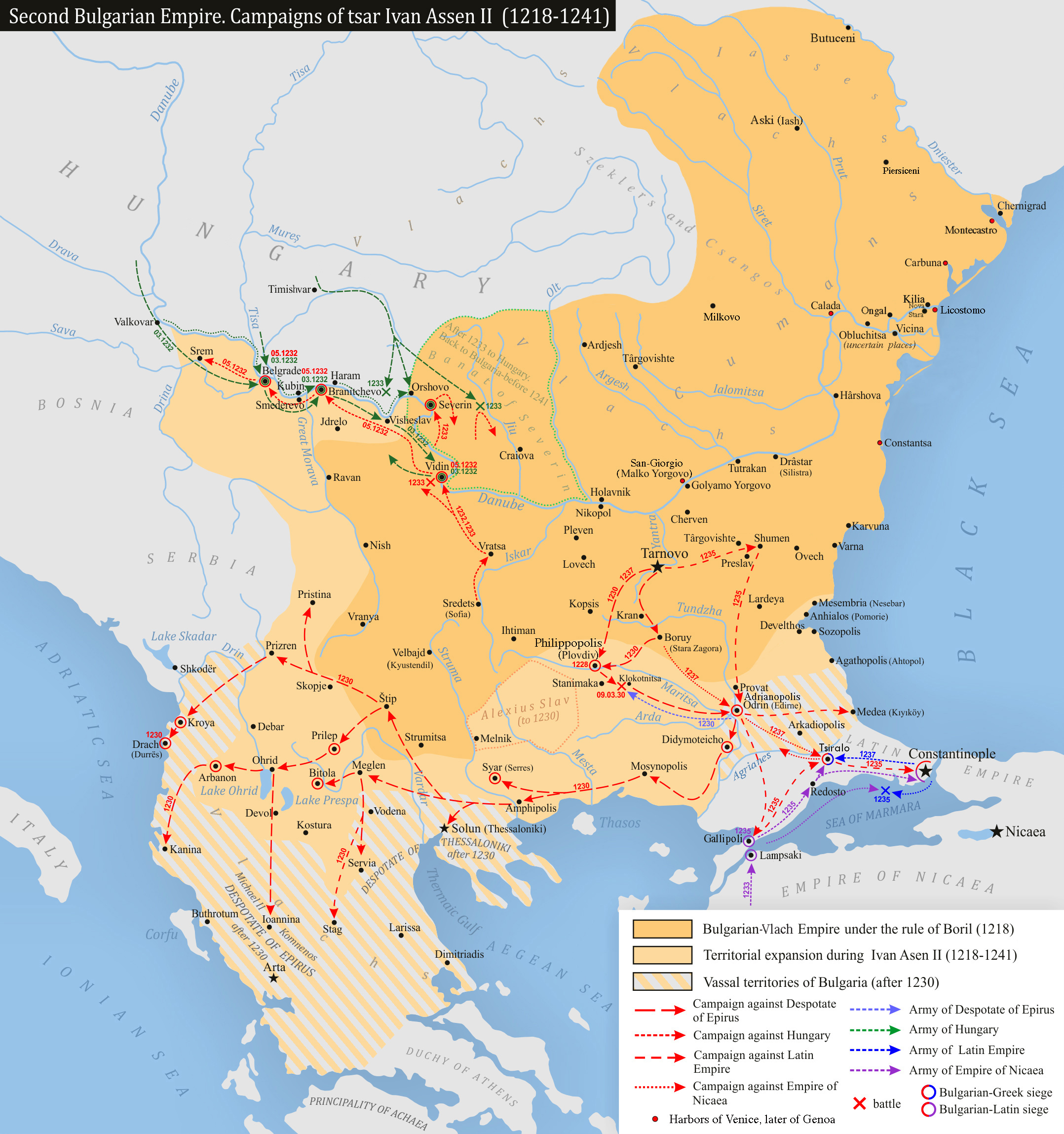 See discussion file.